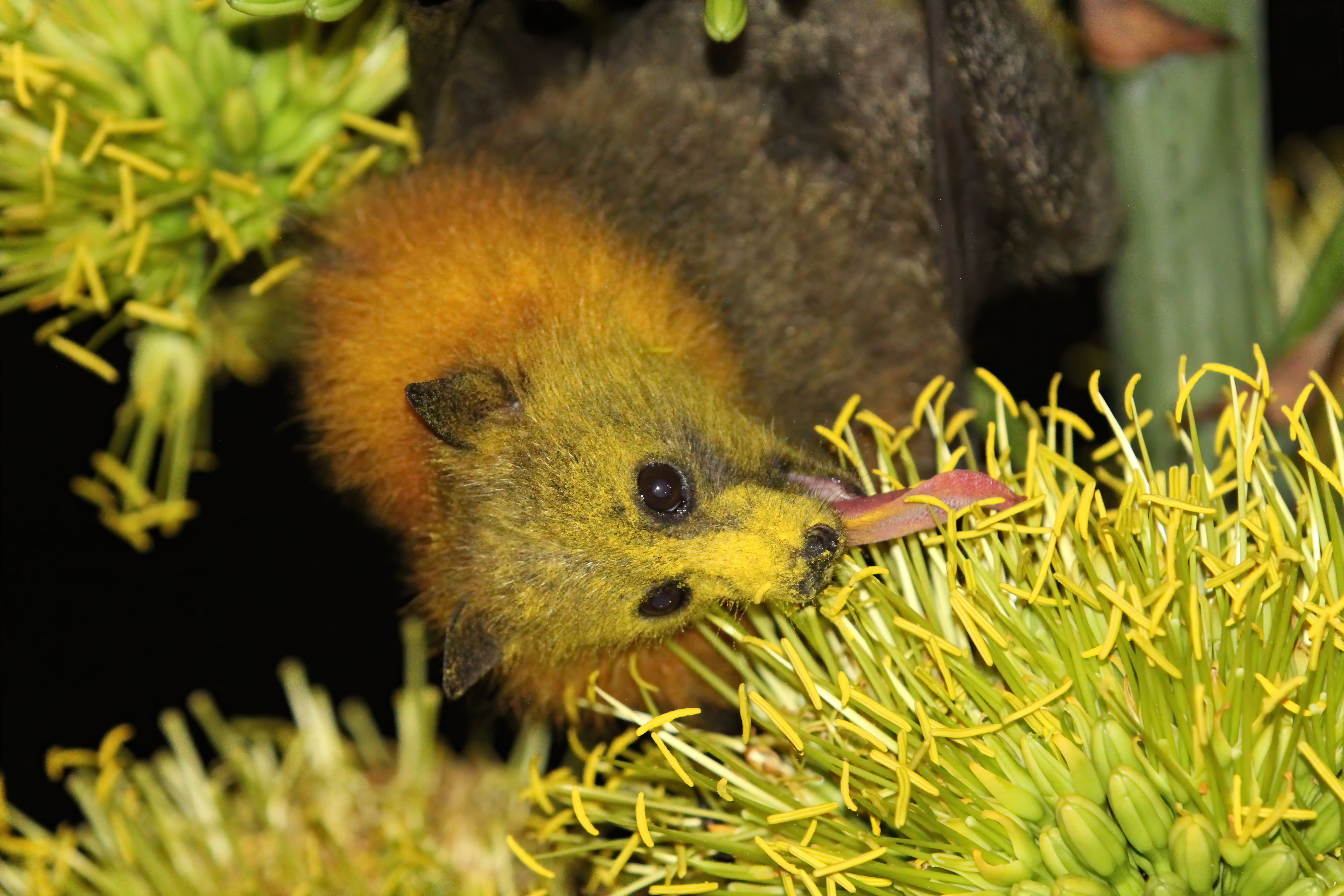 Grey-headed Flying Fox (Pteropus poliocephalus) eating flower nectar. The face and fur of this bat being covered with yellow pollen provides a good visual example of the role that bats have in pollinating Australian trees and bushlands. Brisbane, Queensland, Australia.